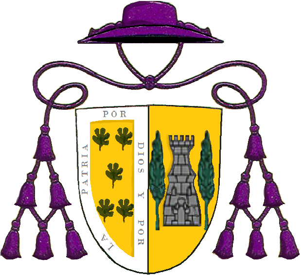 Rafael Higueras Álamo